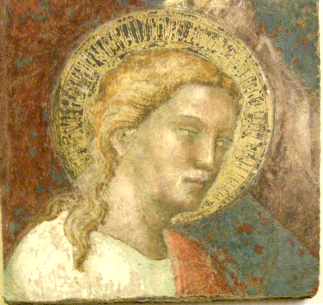 Fragment of fresco with saint Thomas's head from Loeser Collection